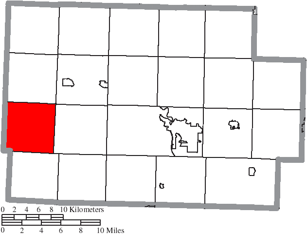 Map of the municipal and township boundaries of Coshocton County, Ohio, United States, as of the 2000 census, with the location of Perry Township highlighted. Township borders are shown only in unincorporated areas in order to differentiate incorporated and unincorporated areas more clearly.